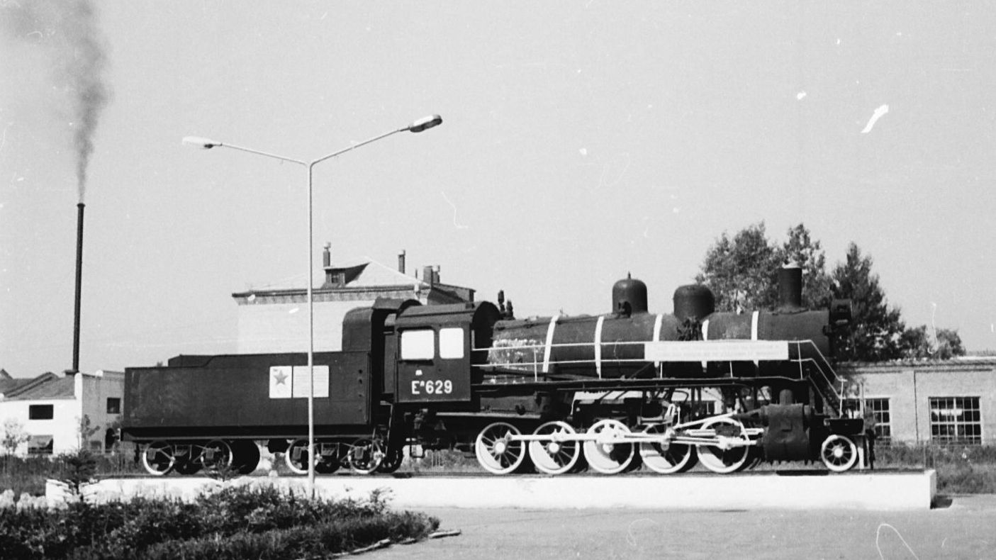 Russian locomotive Ел-629